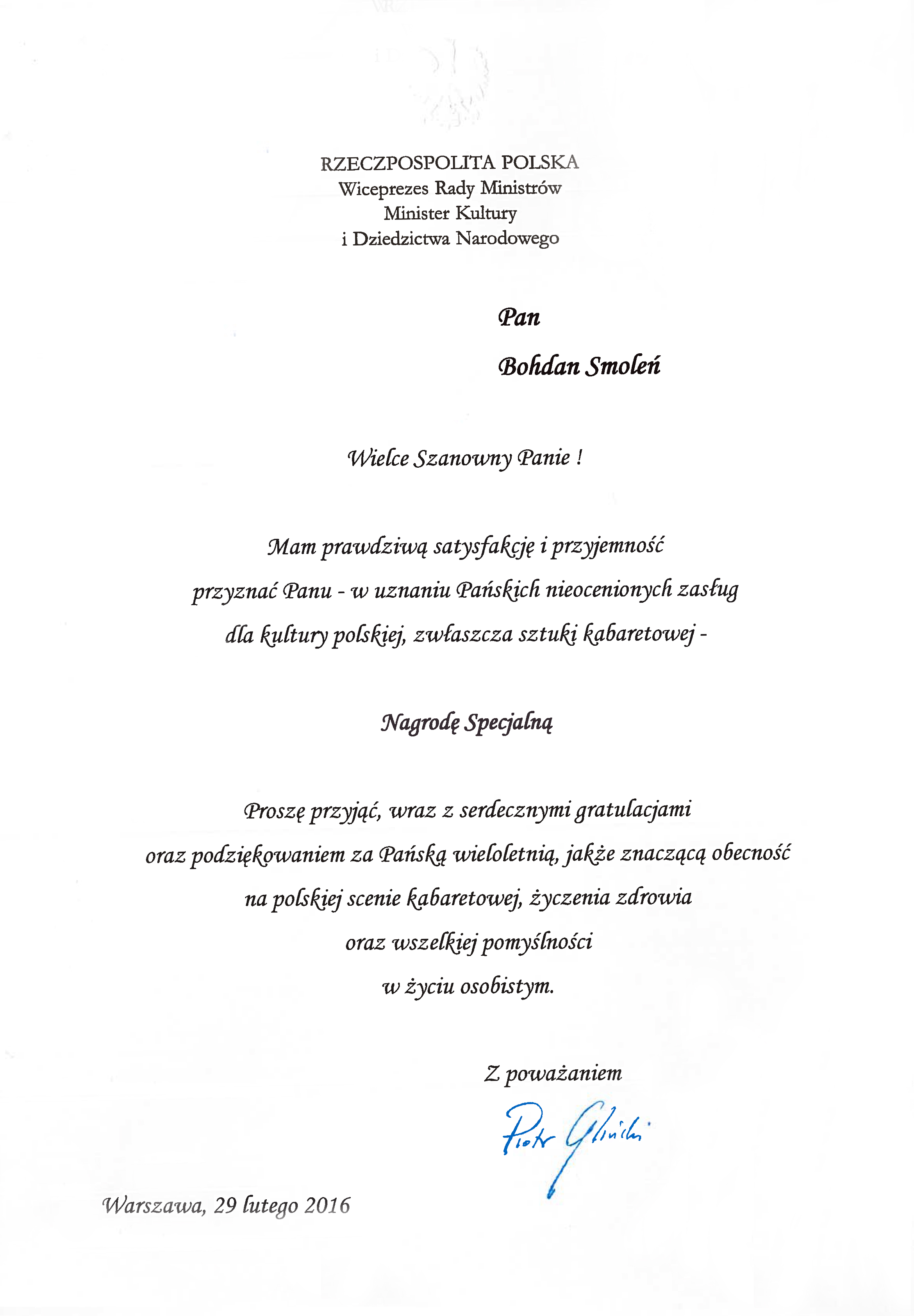 Special Award of the Ministry of Culture and National Heritage for Bogdan Smoleń - awarded in 2016 by professor Piotr Gliński